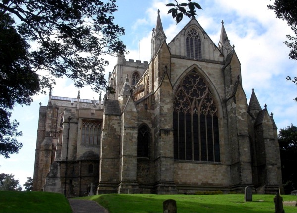 East Face of Ripon Cathedral. Ripon, Yorkshire, Great Britain.